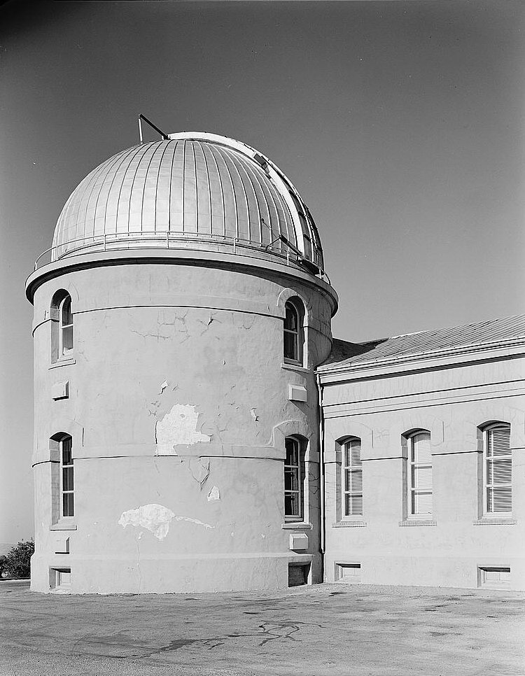 Observatory north tower, looking northeast